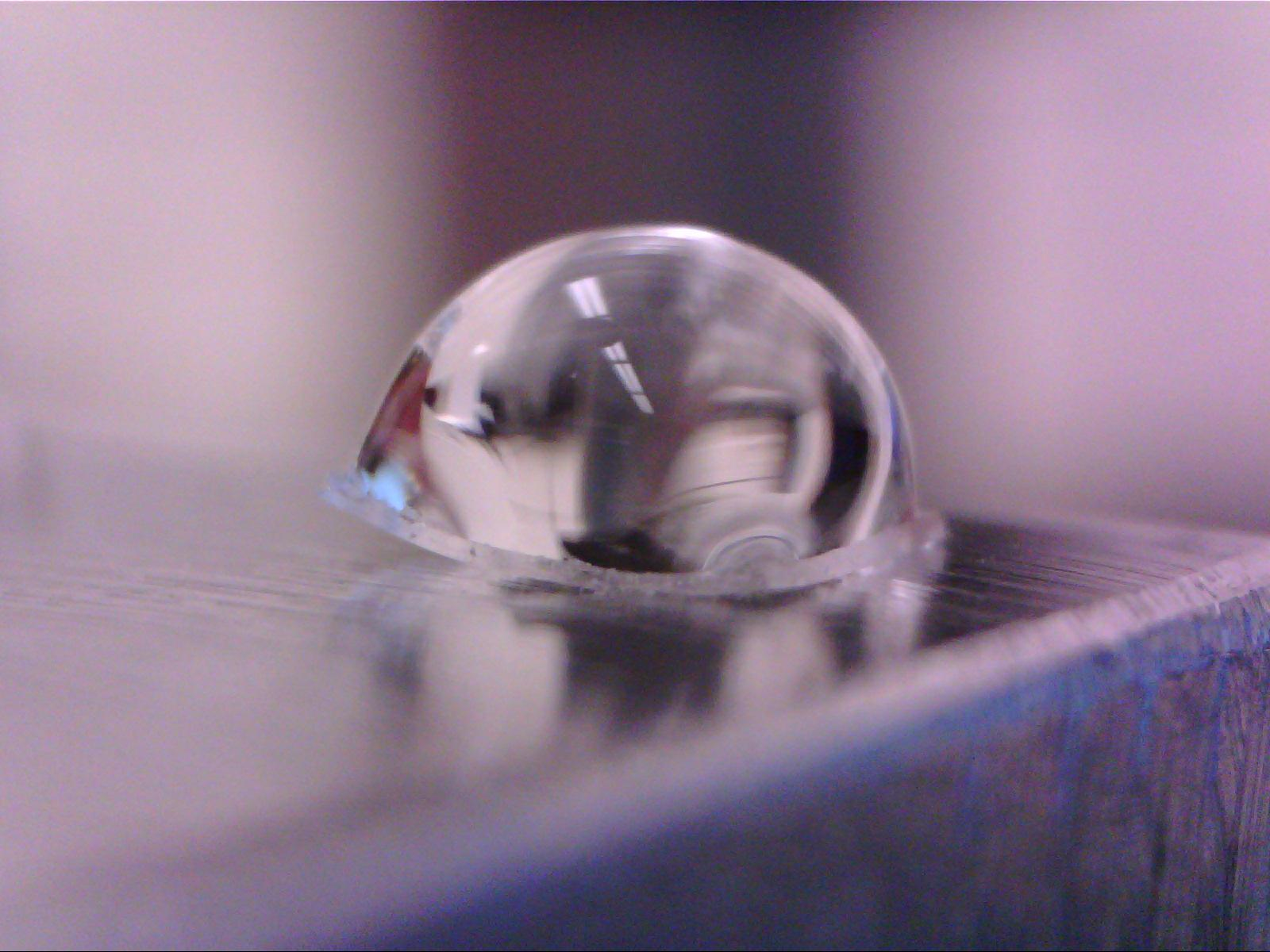 Deformation of a PDMS sheet by water drop